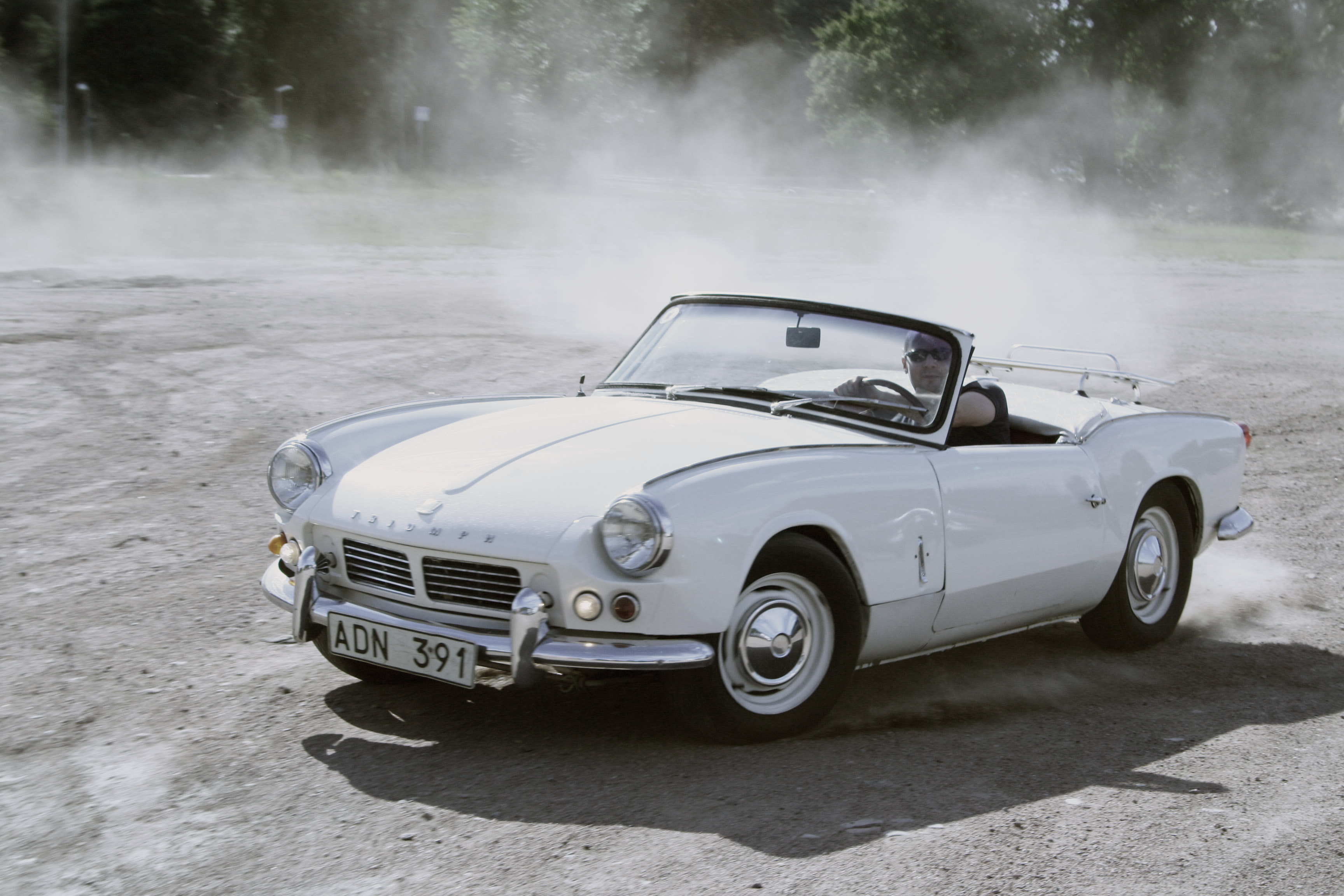 Arvid in his 1965 Triumph Spitfire 4 Mk2